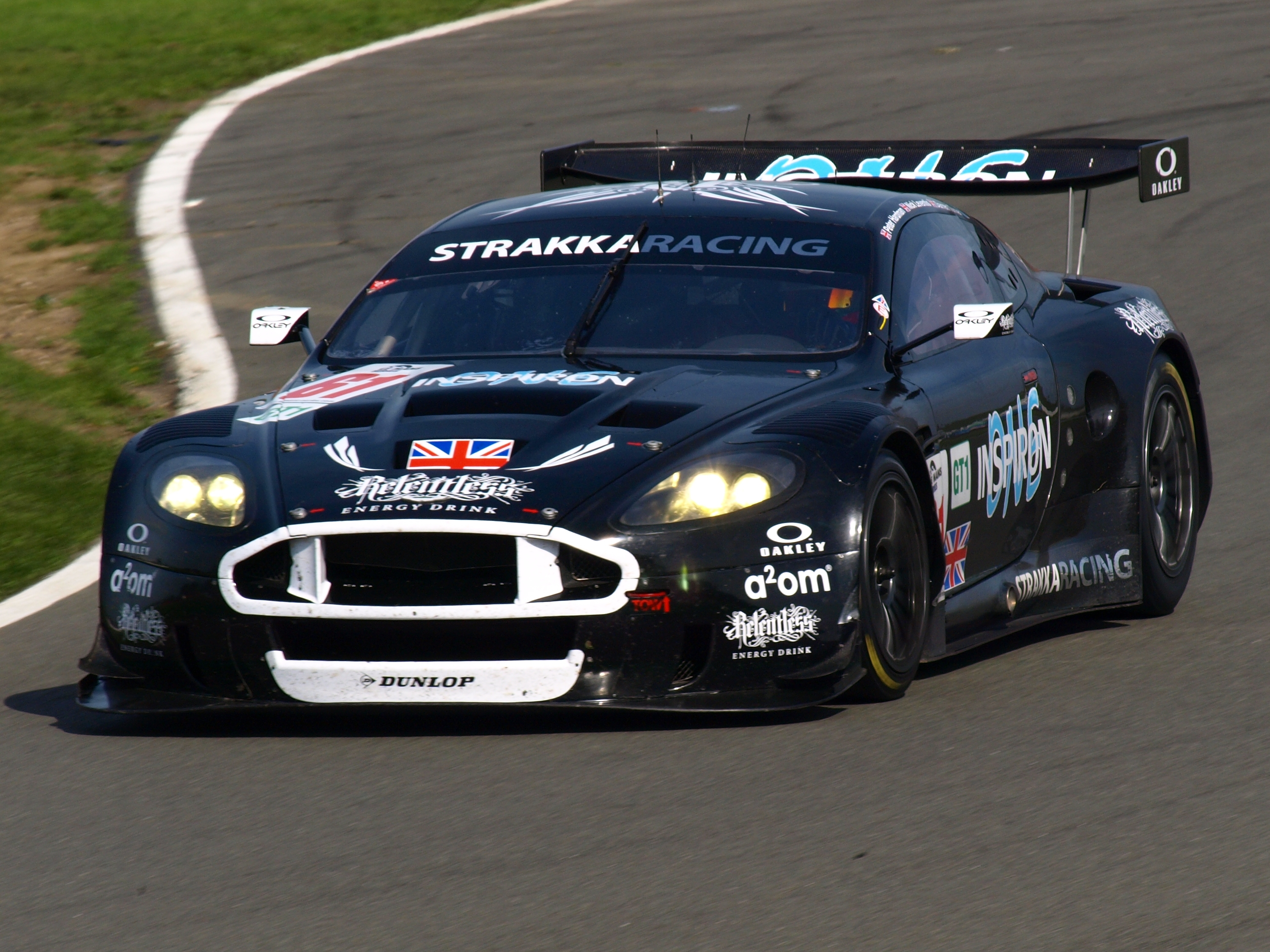 Nick Laventis driving Strakka Racing's Aston Martin DBR9 at the 2008 1000km of Silverstone.